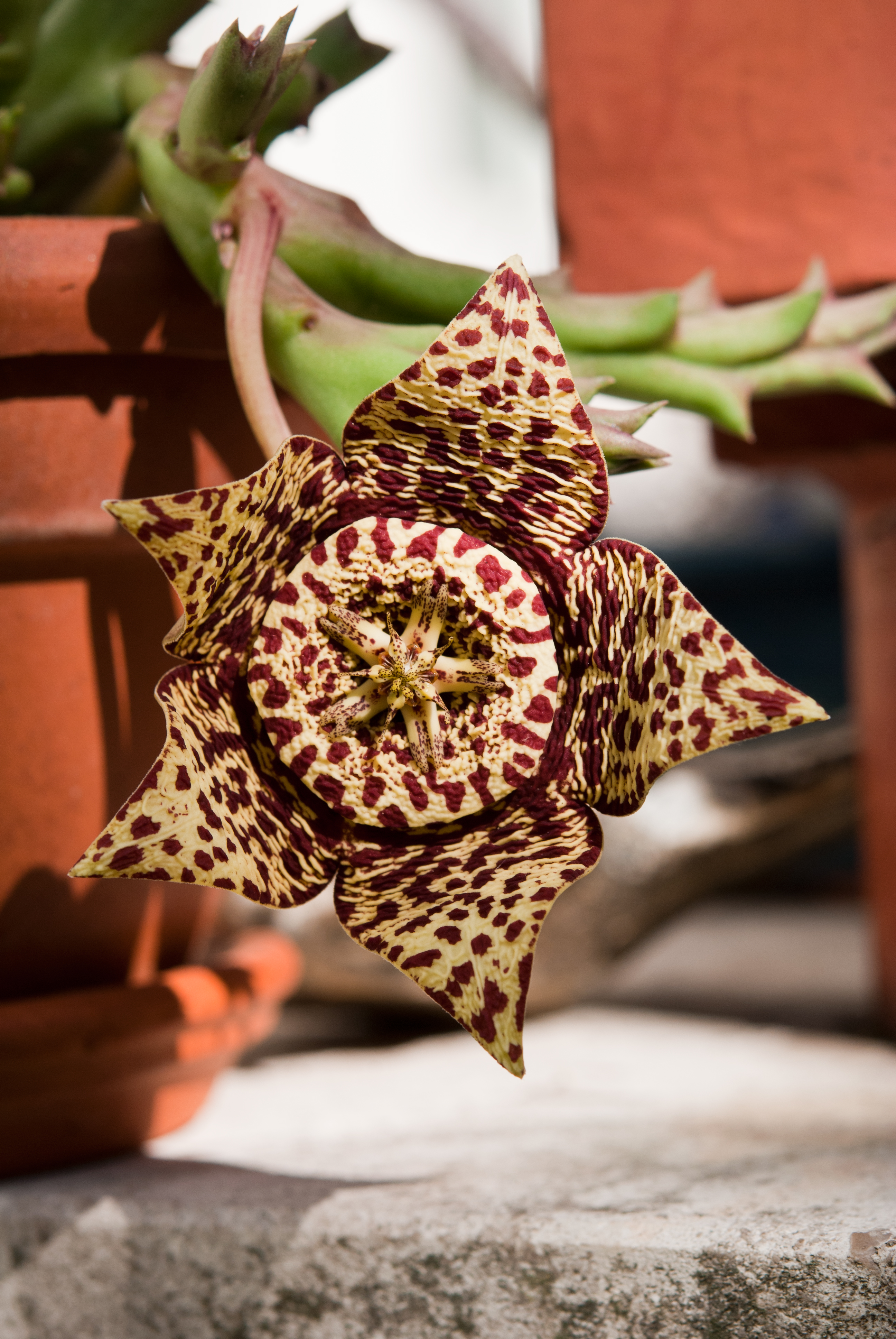 Stapelia lepida flower.